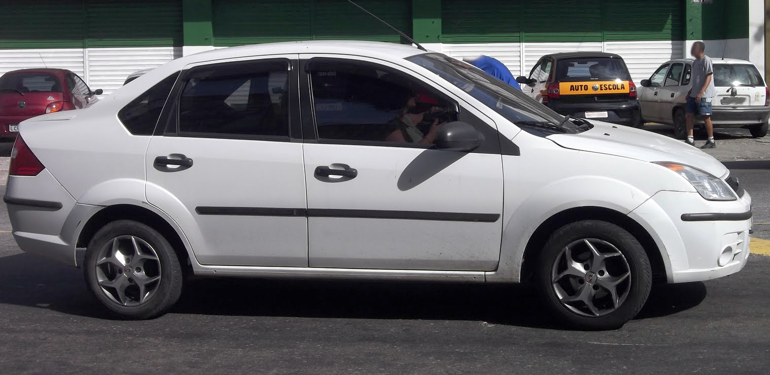 2008 facelift version of Brazilian-built Fiesta (Mk V) sedan